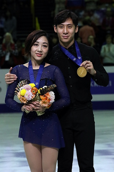 Sui Wenjing and Han Cong at the World Championships 2019 - Awarding ceremony